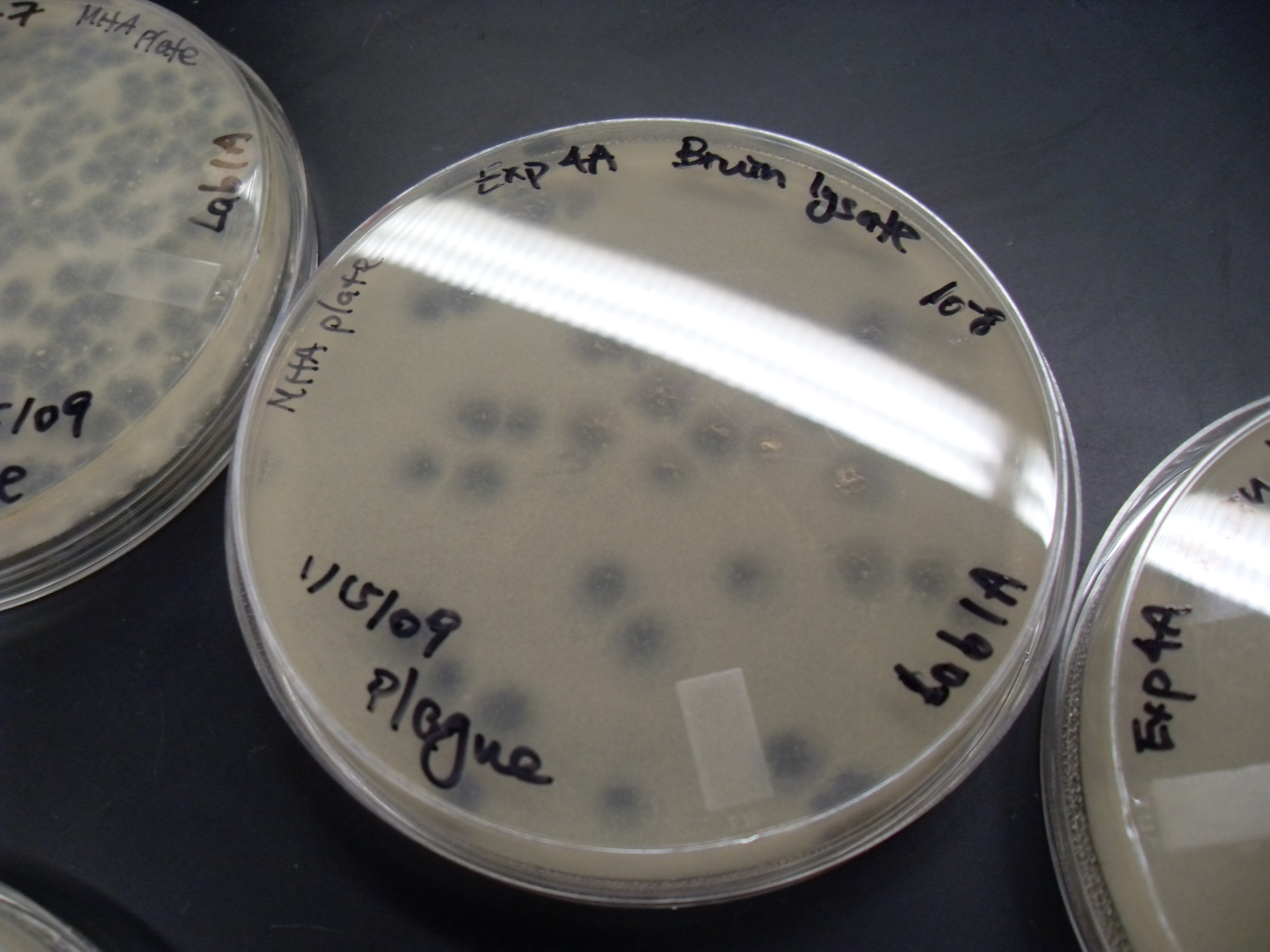 Plaques from a virus isolated from a compost heap near UCLA. The picture shows plaques created by a virus that infects bacteria. The bacteria infected in this instance is M. smegmatis.